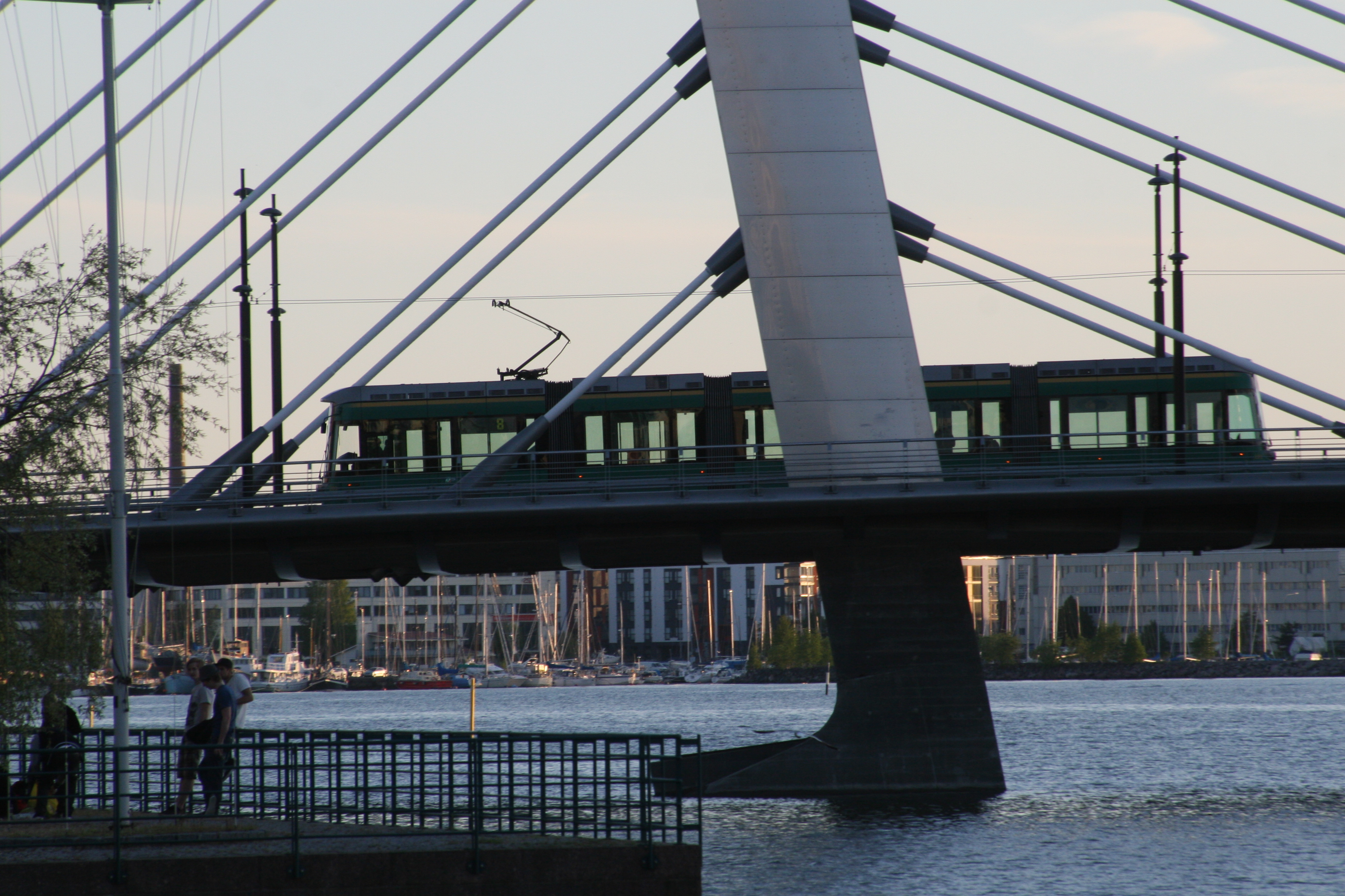 Helsinki tram number 8 crossing the Crusell Bridge from Ruoholahti to Jätkäsaari. Lauttasaari is seen in the background